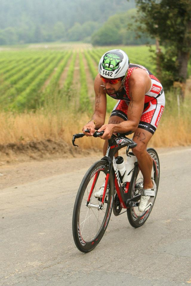 Roberto Garcia Lachner at Vineman